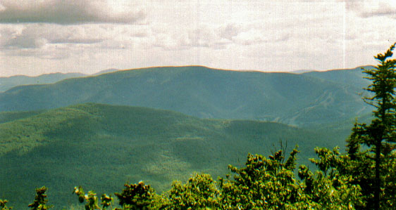 Photographed by Daniel Case 1998-07-28. Print scanned 2006-07-02